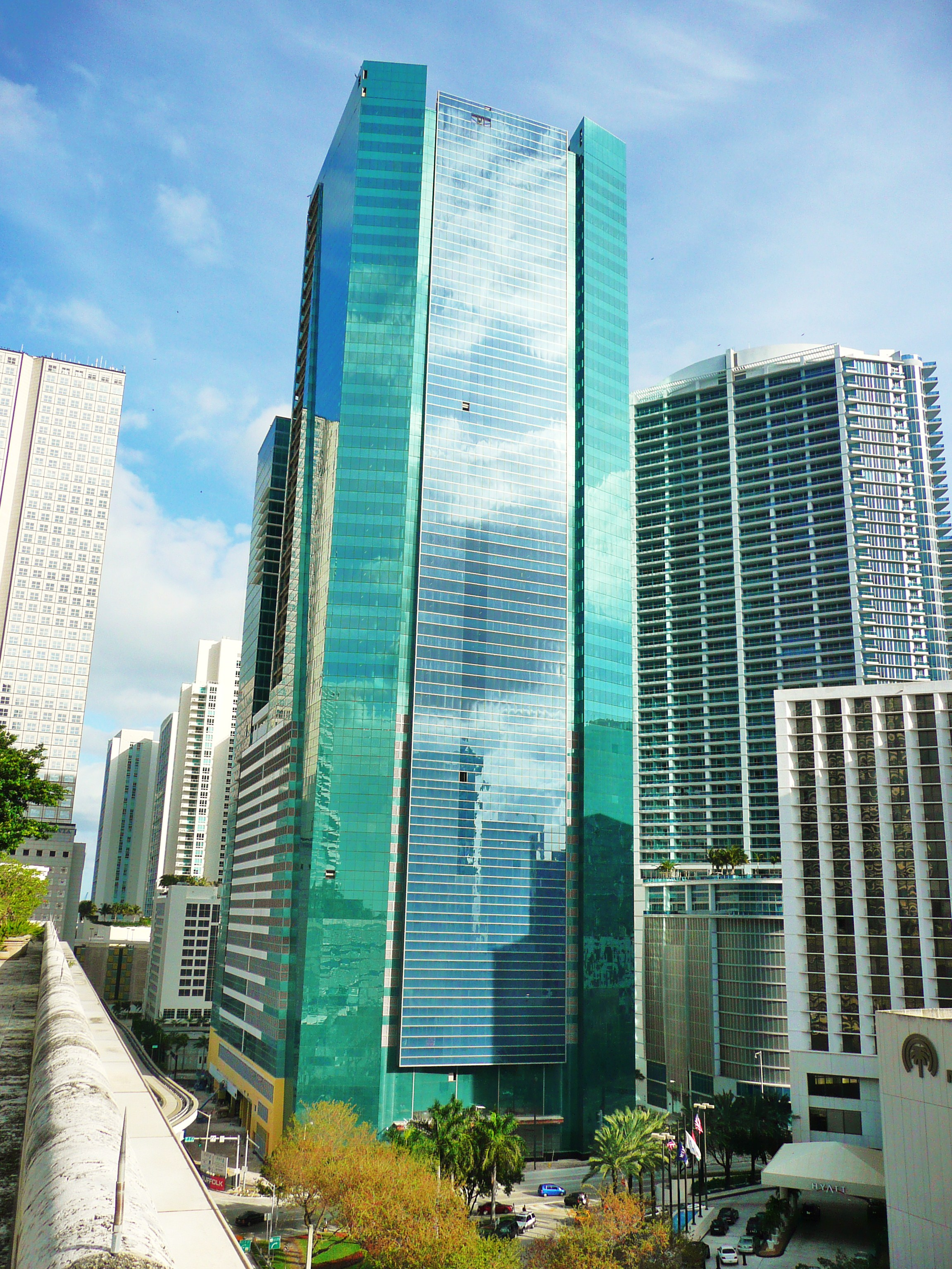 Digital photo taken by Marc Averette. Metropolitan Miami tower II in Downtown Miami, Florida, USA.